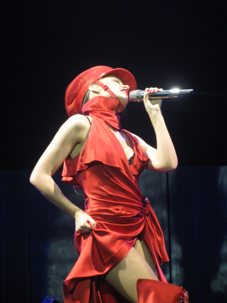 Kylie Minogue performing on the KylieX2008 tour in Auckland, NZ, on the 8th Dec 2008